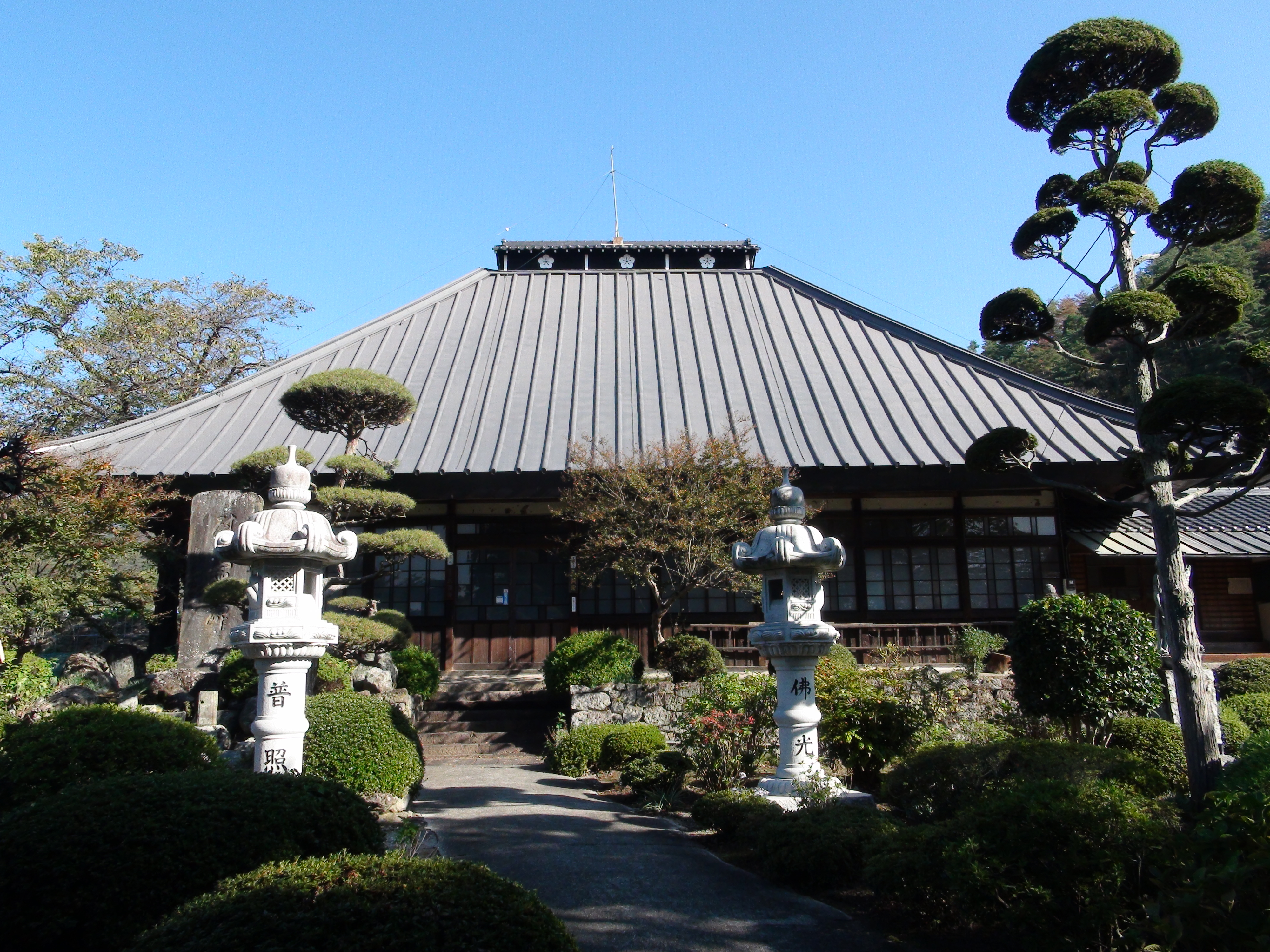 Main hall of Tentaku-ji Temple